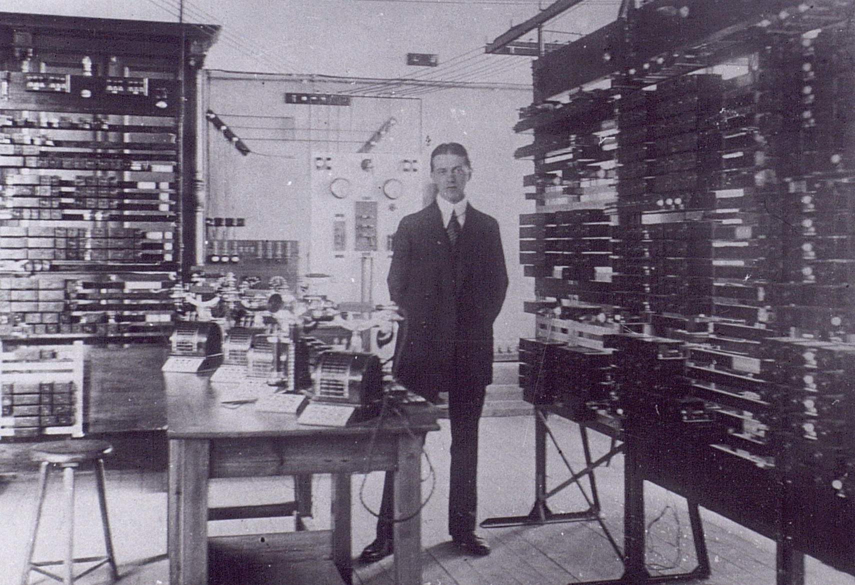 Engineer Nils Palmgren at the Nya AB Autotelefon Betulander test facility, 1915. Tekniska museet: TEKA0130484